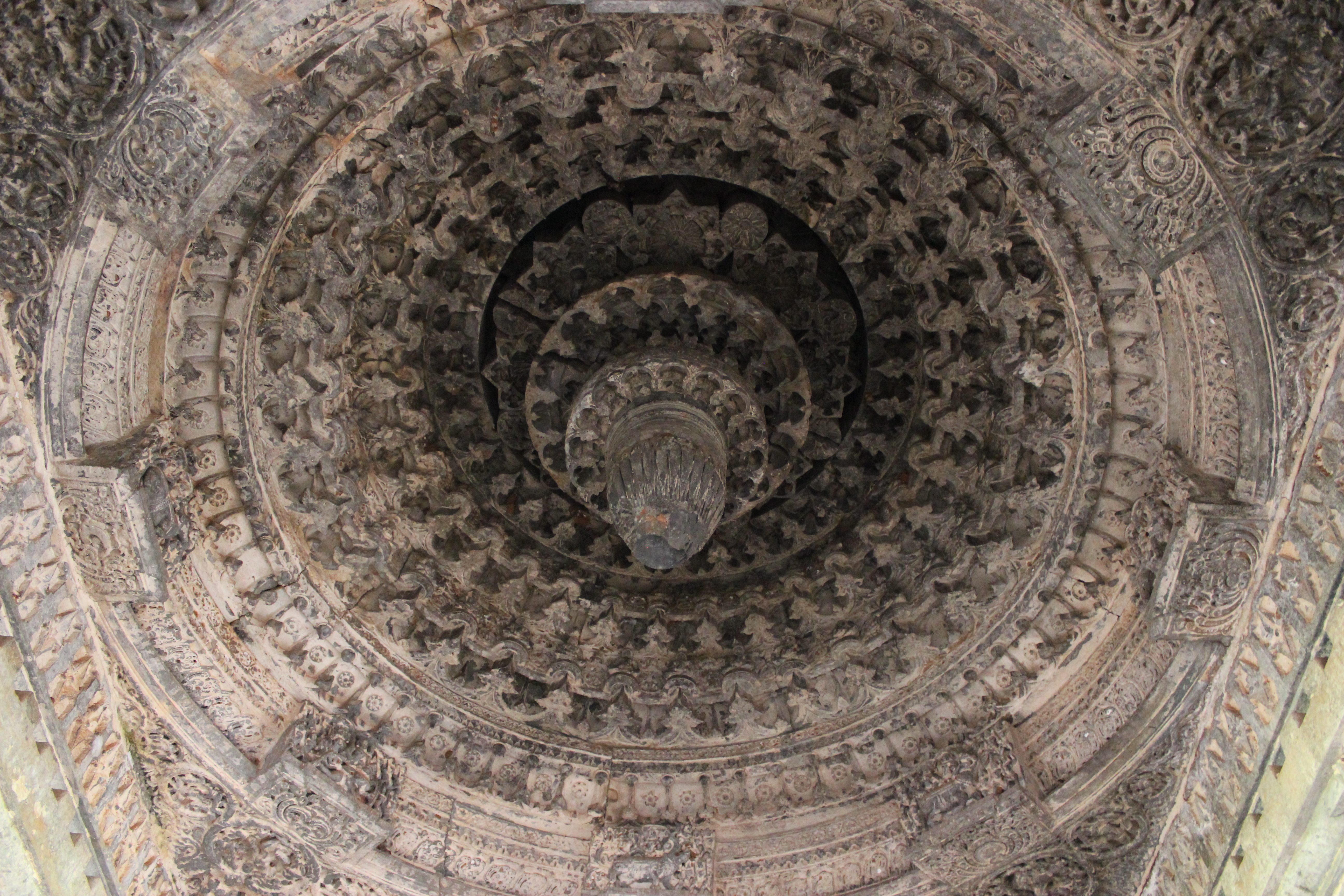 This photograph was taken by me at the Kaitabhesvara (also spelt Kaitabheshvara or Kaitabheshwara) temple in Kubatur (also spelt Kubattur or called Kotipura) in the Shivamogga district (Shimoga), Karnataka state, India. The temple was built around 1100 AD during the reign of Hoysala King Vinayaditya, a feudatory of the Western Chalukya emperor Vikramaditya VI. The architectural style is very Chalukyan.